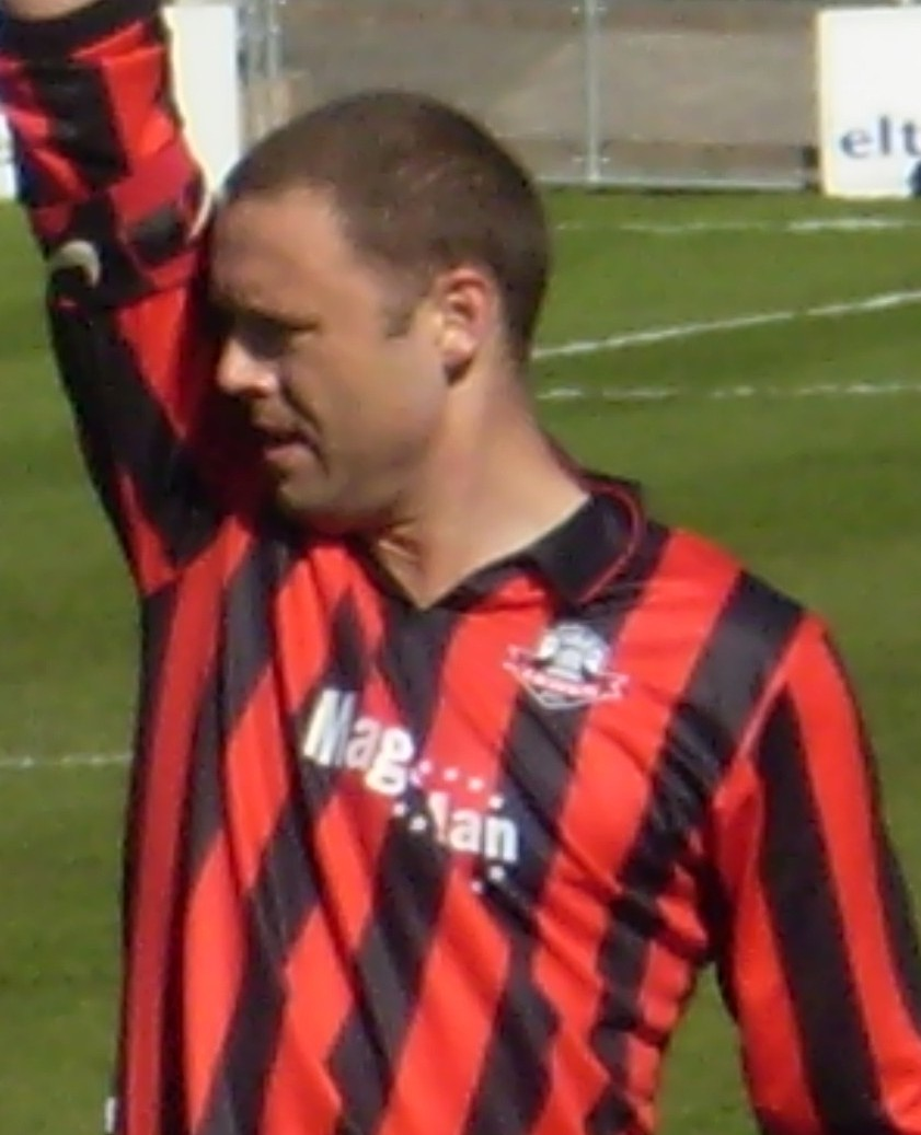 Danny Cullip playing for Lewes F.C. against York City F.C. in the Conference National on the last day of the 2008–09 season